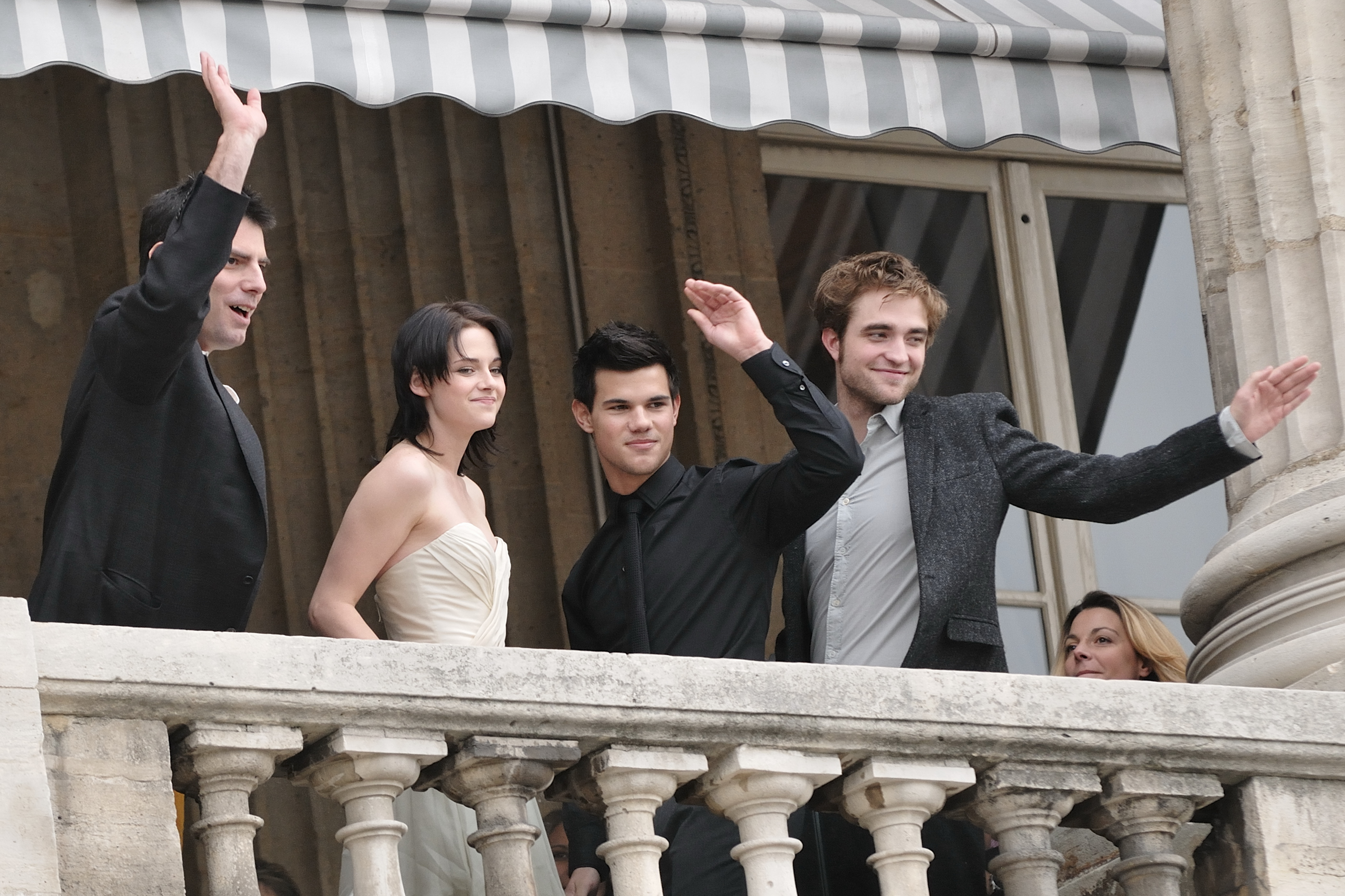 Director Chris Weitz (left), actress Kristen Stewart, actor Taylor Lautner and actor Robert Pattinson (right) attending the Twilight Saga Film New Moon (Twilight Chapitre 2 Tentation) Photocall at the Crillon Hotel in Paris, France on November 10, 2009.